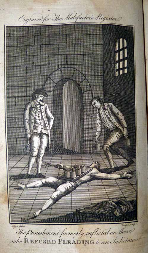 Copper plate published by Alexander Hogg in his 1780 edition of the Malefactor Register, picturing the press punishment for those who refuse to plead.